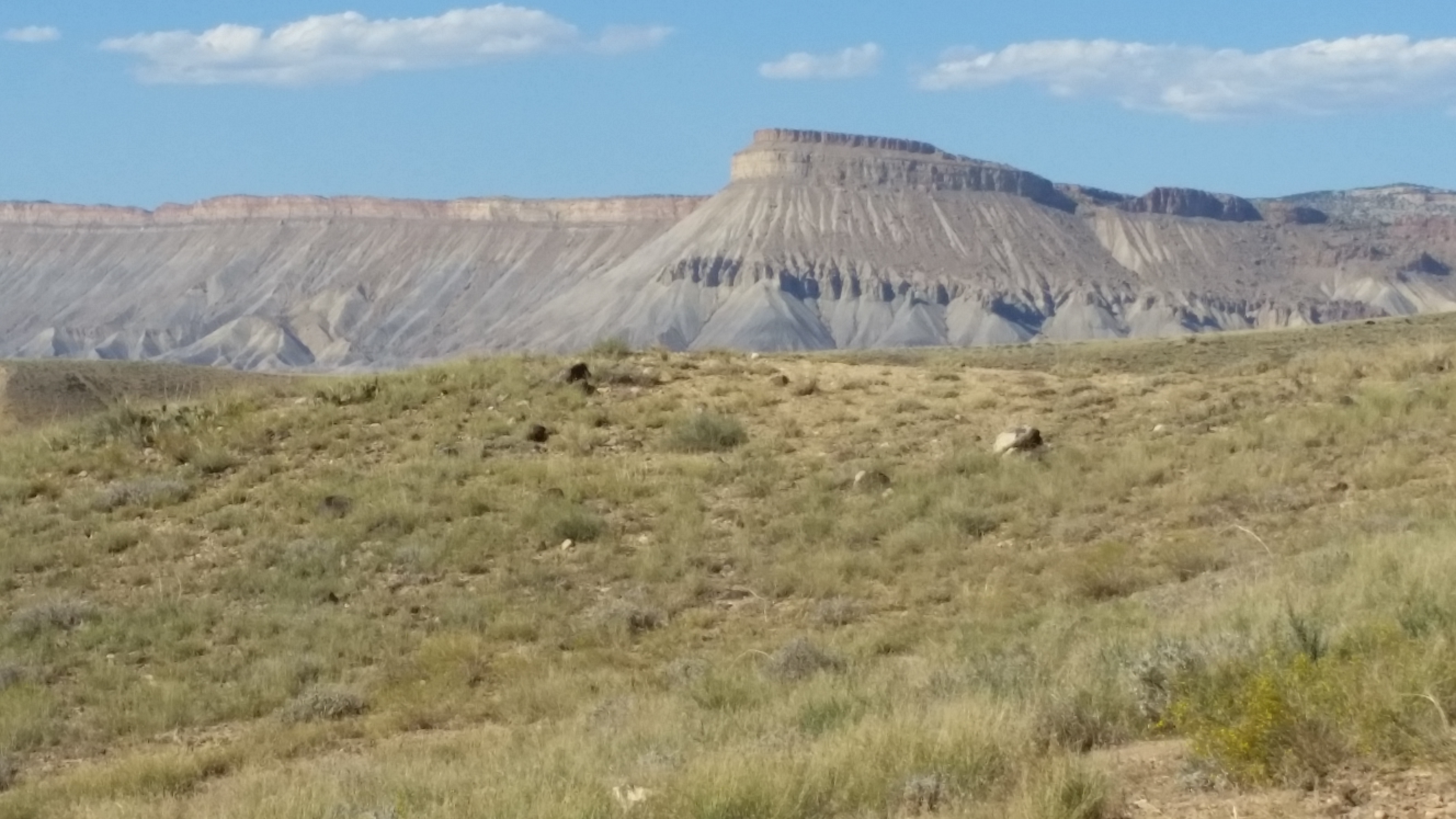 Mt. Garfield from East Orchard Mesa, Colorado.